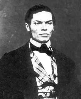 Portrait of Ferdinand Joachimstahl (1818-1861), German mathematician